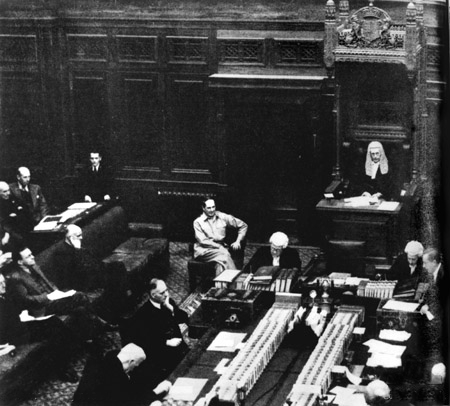 AWM Caption: US General Douglas MacArthur, visiting Canberra, was invited to sit at the right of the speaker, Mr Nairn, in the House of Representatives at Parliament House. He stayed for 55 minutes. In front of the Government benches, sitting at the table (left of centre) is John Curtin, the Prime Minister of Australia.